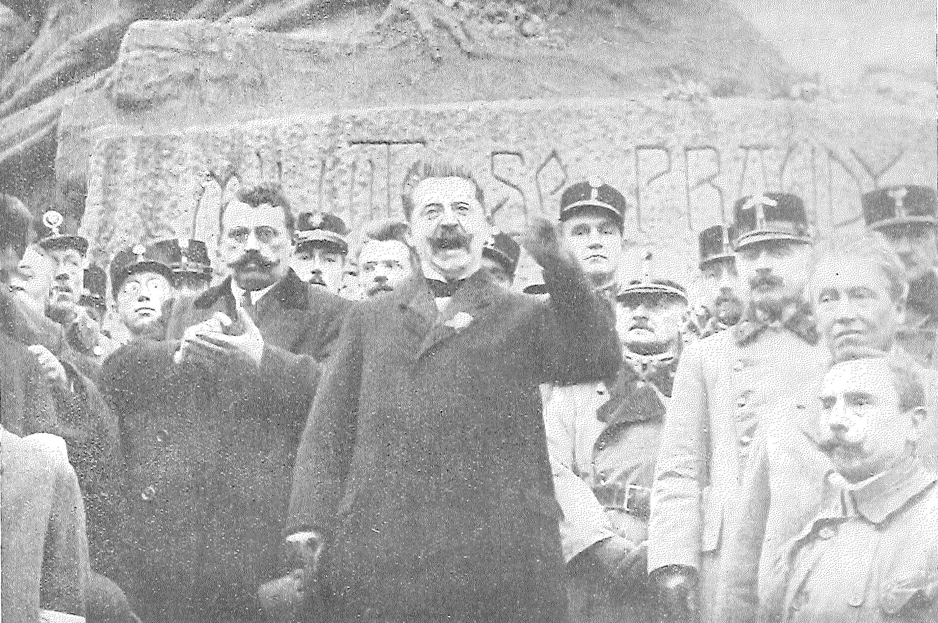 Václav Klofáč speaks at the Old Town Square in Prague during the October 1918 events.